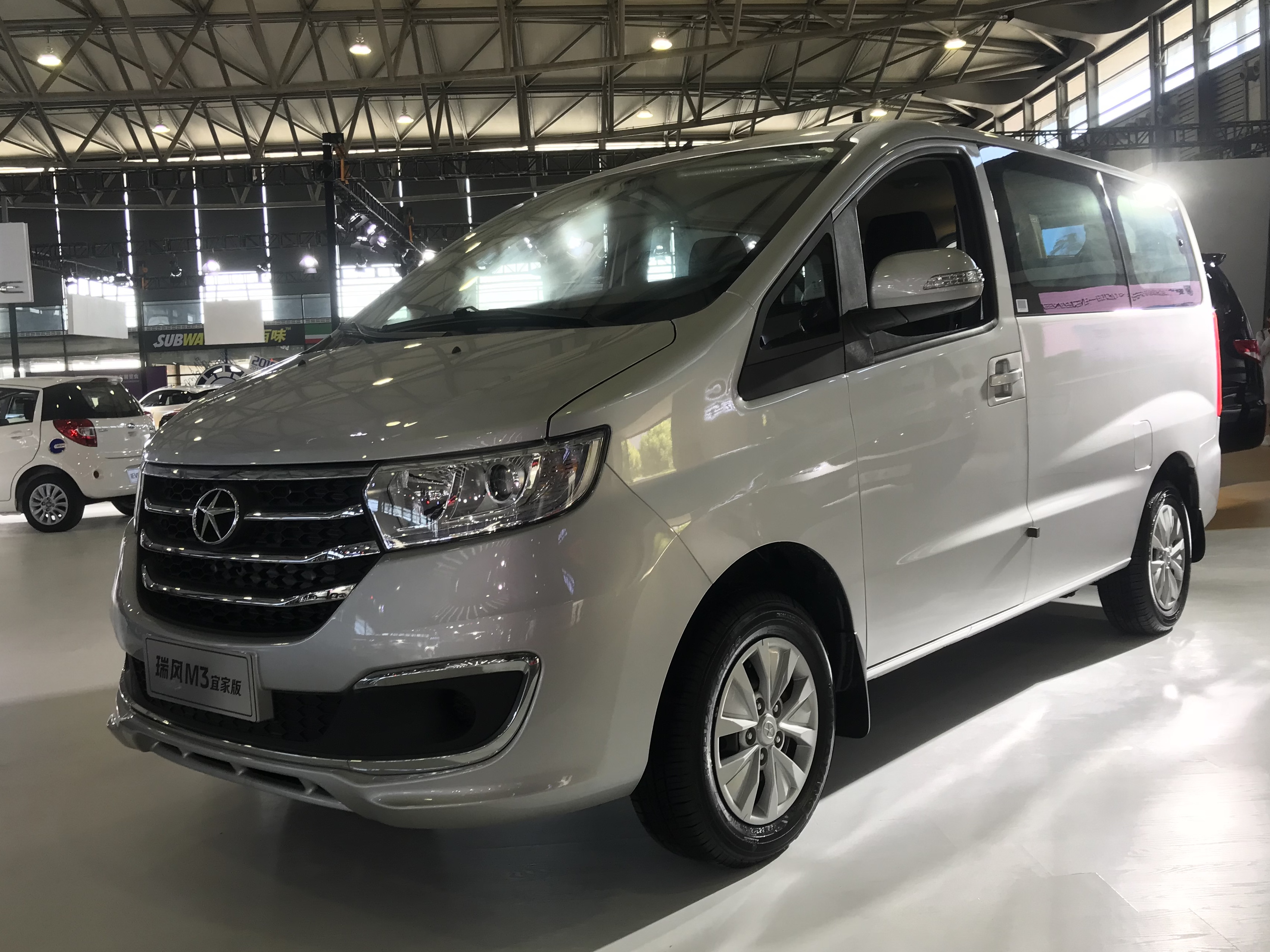 Refine M3 front